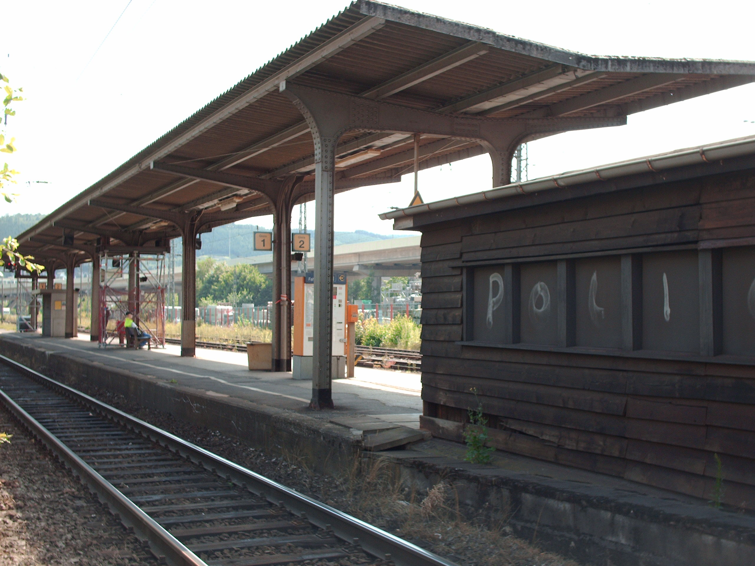 Hüttental-Geisweid station, Siegen, Germany check usage